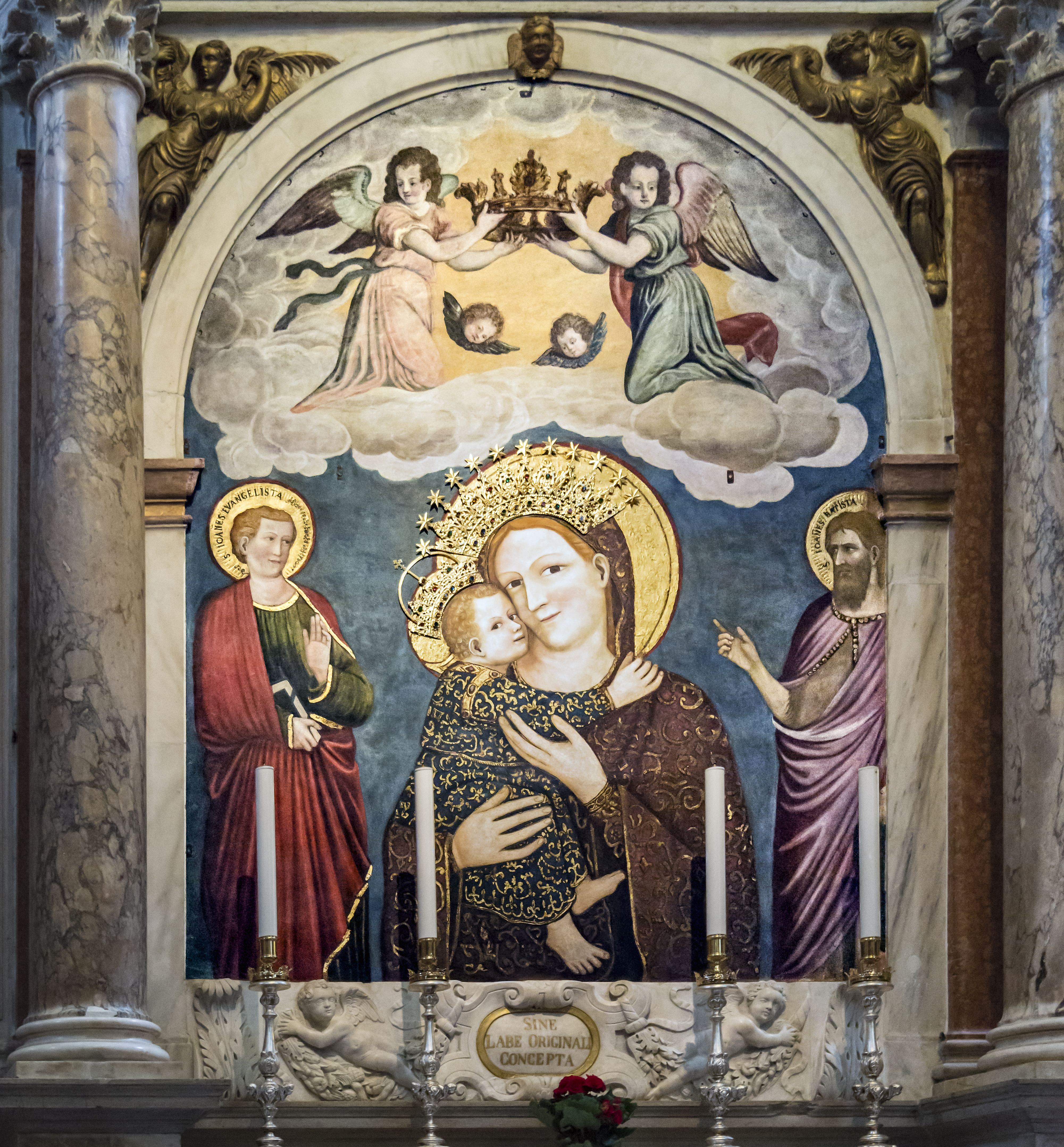 Basilica of Saint Anthony of Padua - Madonna del Pilastro by Stefano da Ferrara, 1350 ca.